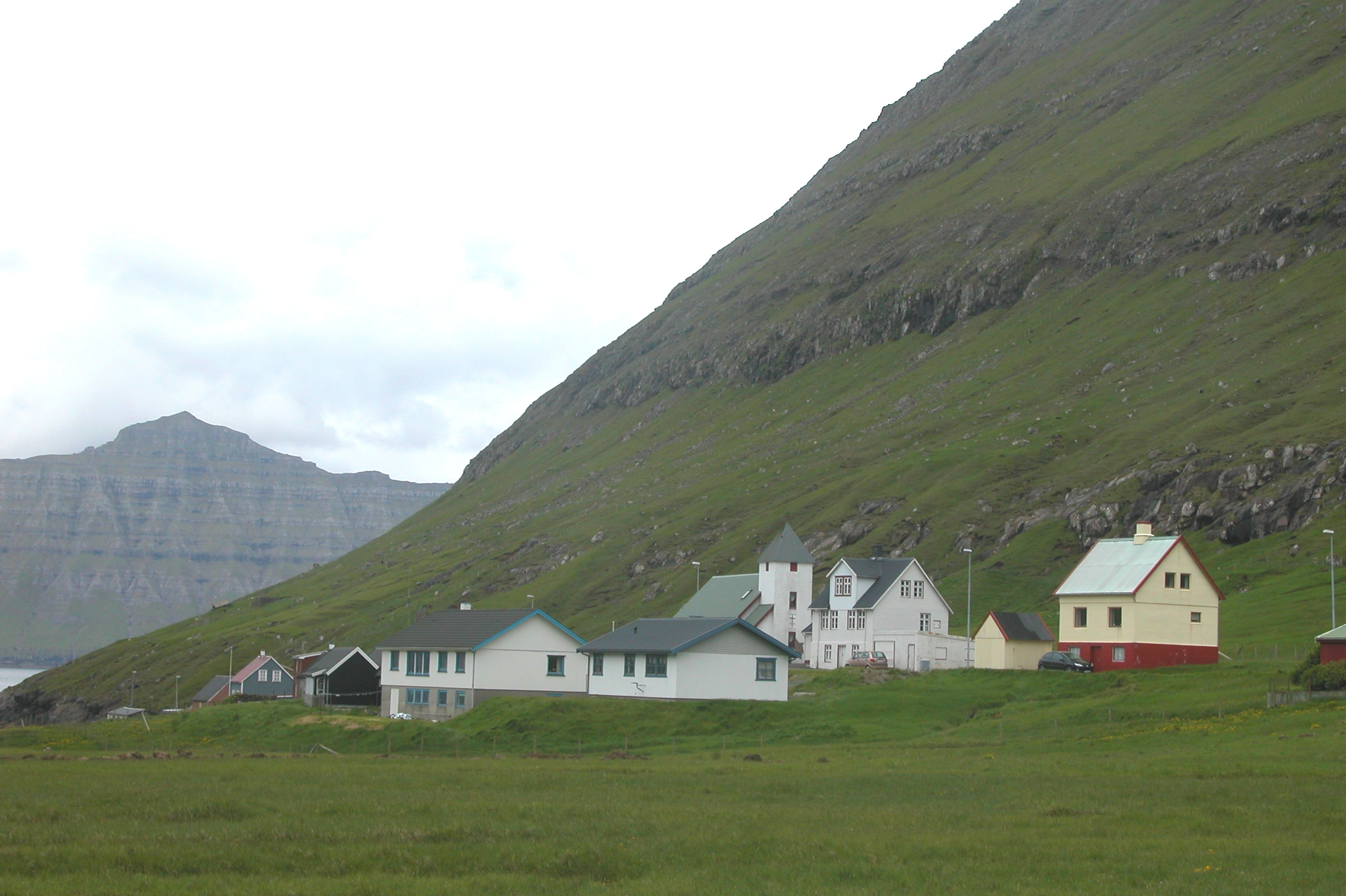 Hellur, Eysturoy, Faroe Islands.